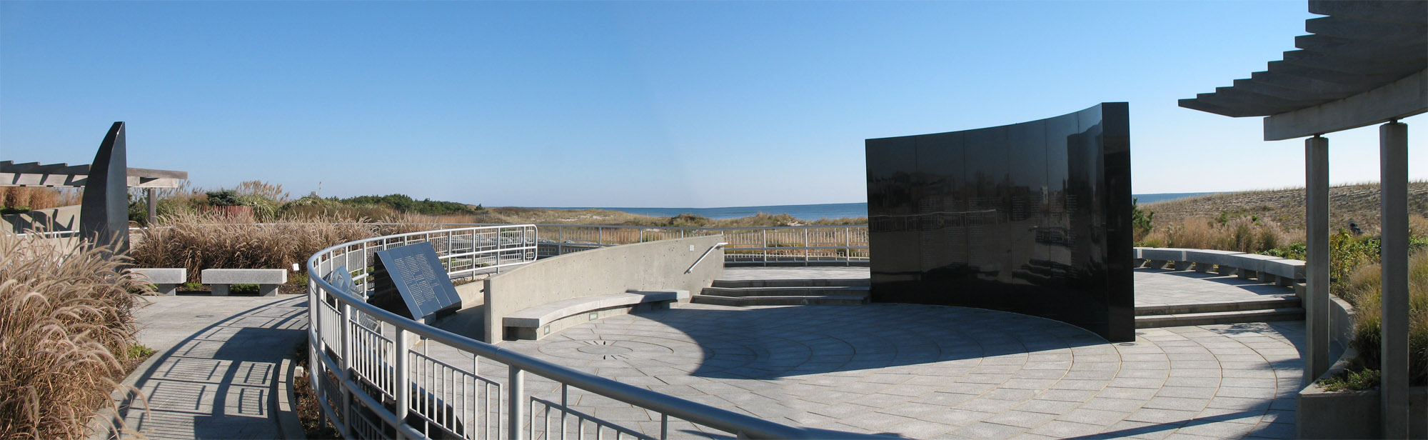 TWA Flight 800 International Memorial at Smith Point County Park in November 2007.